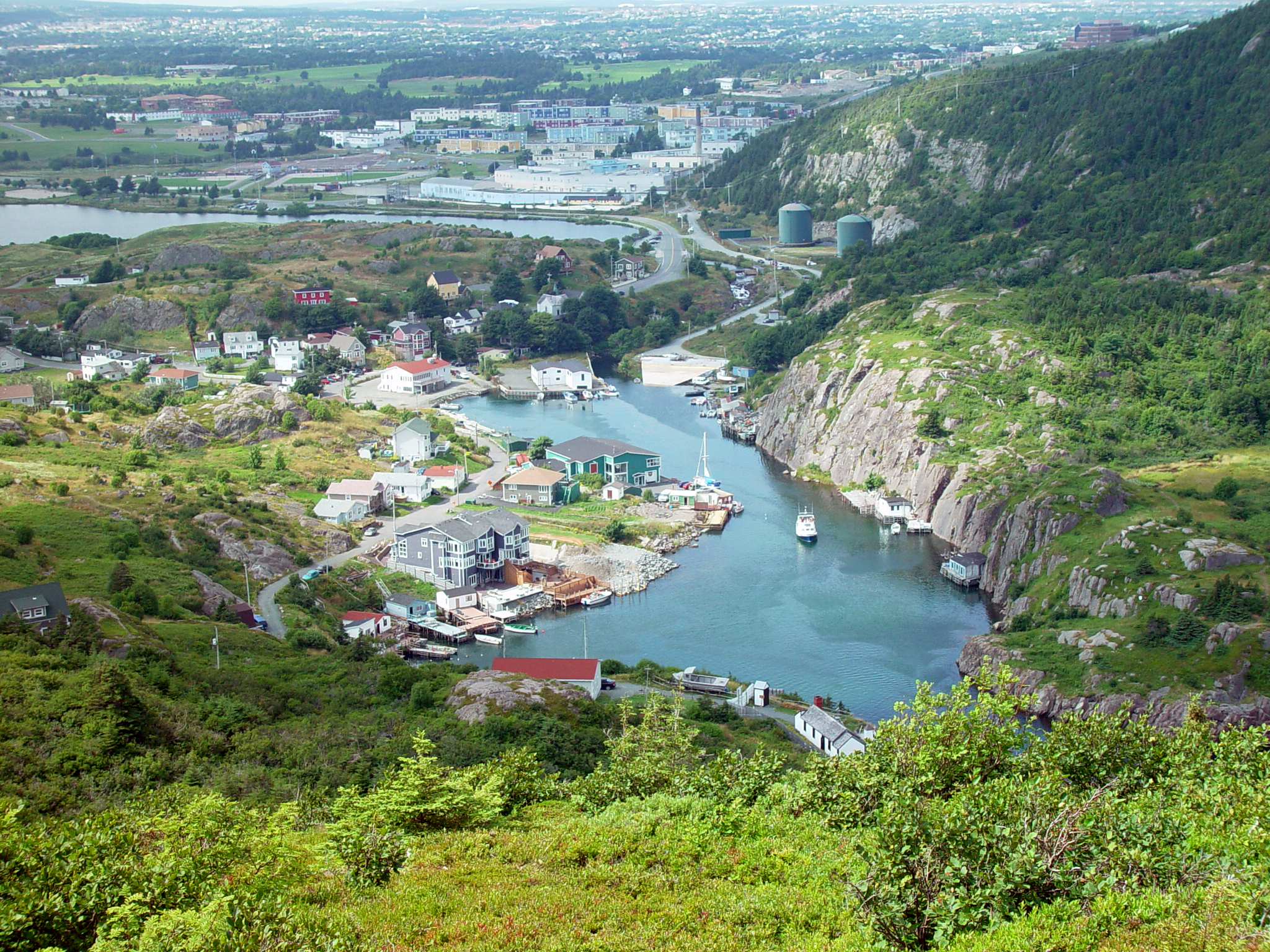 Quidi Vidi as seen looking west from the top of Cuckhold's Cove Head, 47.57861, -52.67086, St. John's, Newfoundland and Labrador